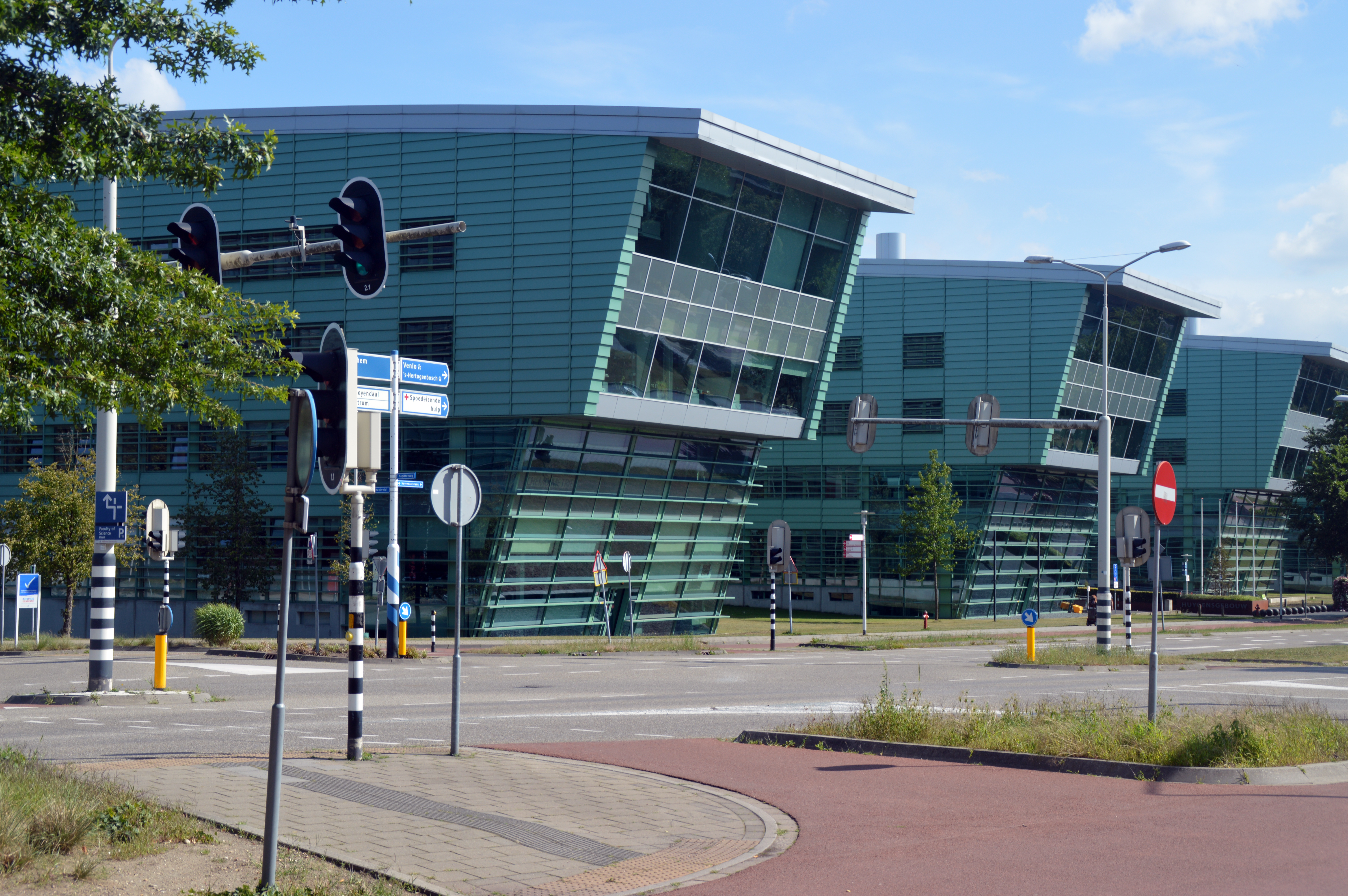 The wings of the Huygens building Heyendaalseweg Nijmegen